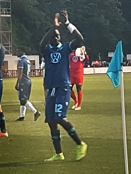 Canadian soccer player Mohamed Kourouma of the HFX Wanderers after a 2019 Canadian Championship match at Wanderers Grounds in Halifax, Nova Scotia, on 10 July 2019.